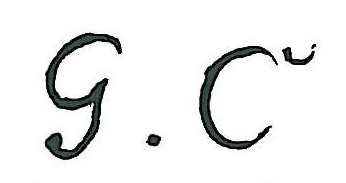 autograph of the painter Gustave Courbet